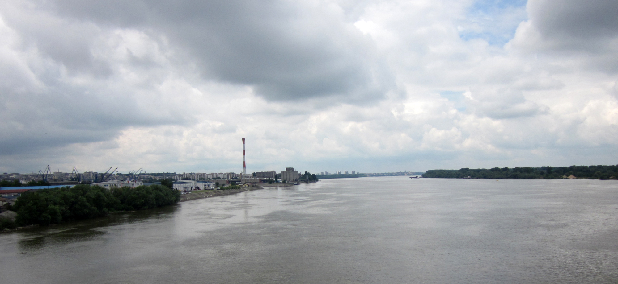 Upstream view from the Pančevo Bridge (Панчевачки мост) over the Danube. Belgrade, Serbia.